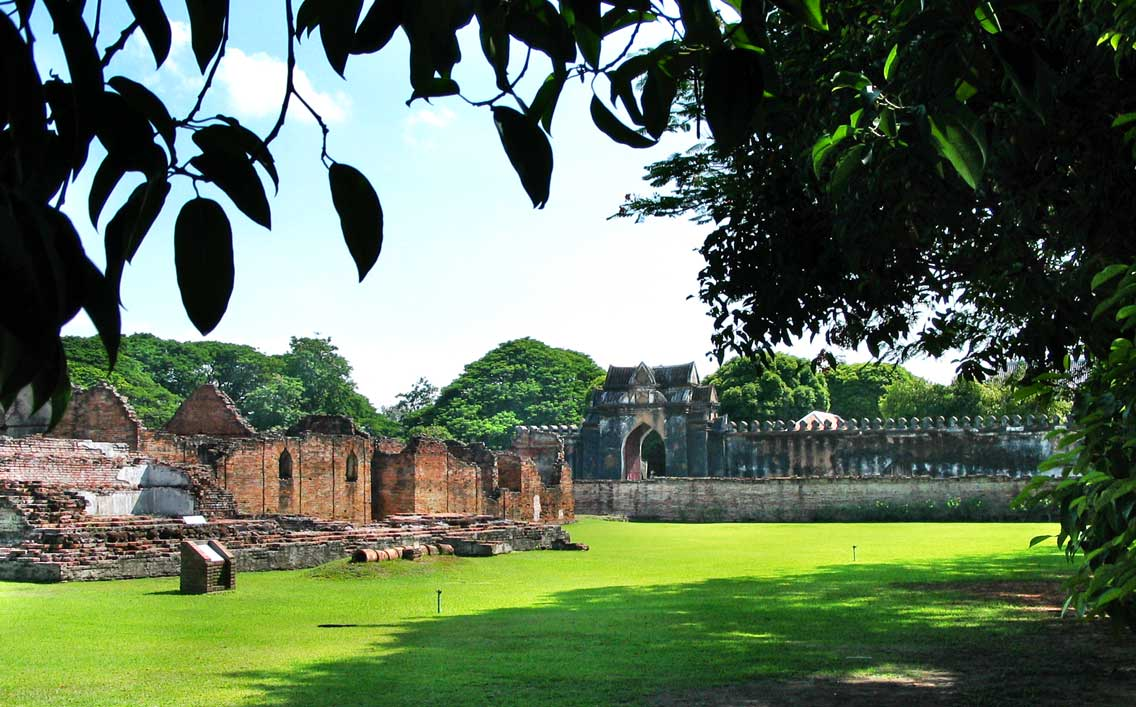 Storehouses within Phra Narai Ratcha Nivet, palace of King Narai, Lopburi, Thailand